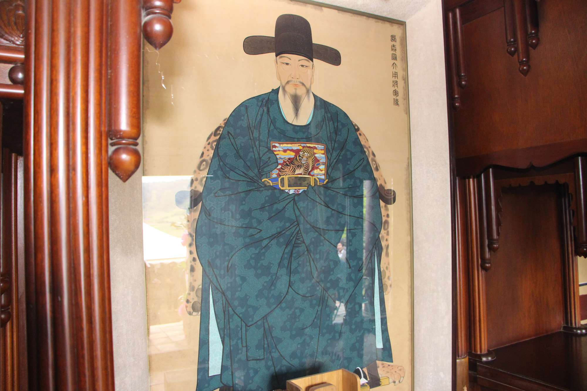 This is the painted portrait of General Na Dae-yong.